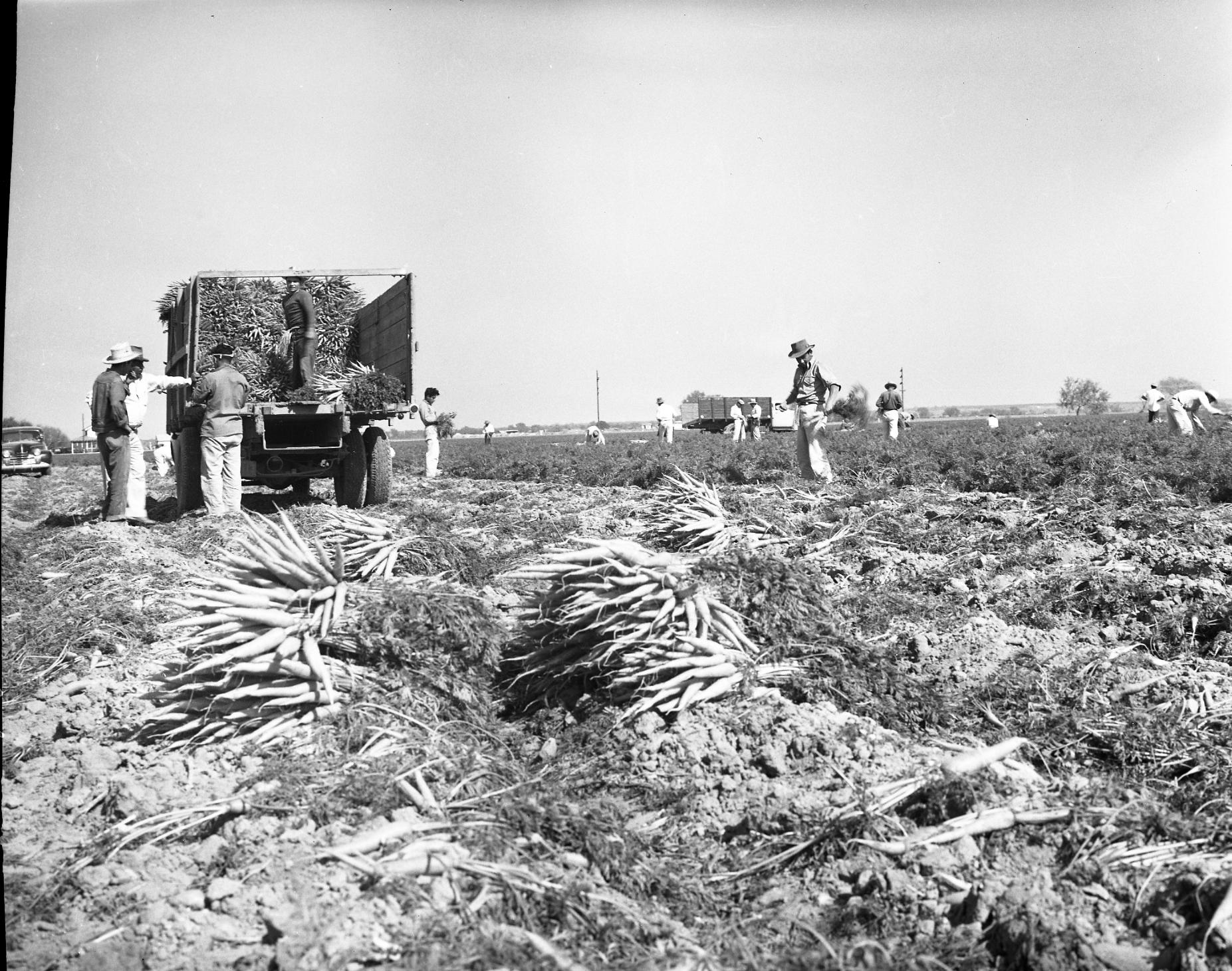 Title: Harvesting Carrots Creator (Photographer): Franke Publisher: Agricultural Communications Office of the Texas Agricultural Extension Service Place of Publication: College Station, Texas Year (Coverage): 1948 Document Type: Image Format: Photographic negative Dimensions: 4 x 5 inches Digitization Date: June2009 Description: A large group of men in a field harvesting carrots and loading them into a truck. Note: Starr County, Texas Collection: Texas A&M University Archives Resource Identifier: Agricultural Communications Collection, Box 2, File 2-166 Institution: Texas A& University, College Station, Texas Repository: Cushing Memorial Library and Archives Contact Information: Phone: 979-845-1951 Copyright: It is the users responsibility to secure permission from the copyright holders for publication of any materials. Permission must be obtained in writing prior to publication. Please contact the Cushing Memorial Library for further information